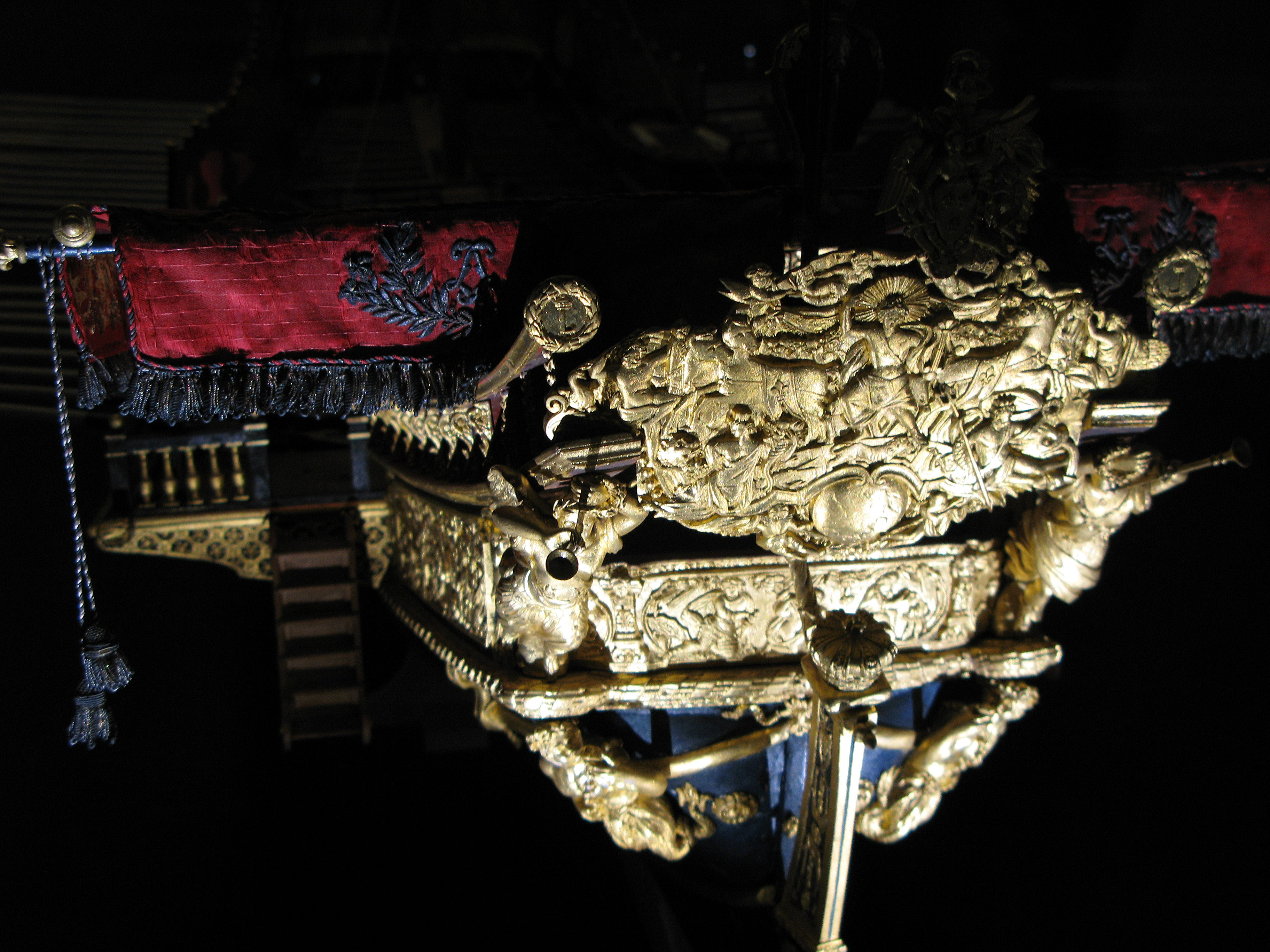 ArtistUnspecified.Description1/16.5th scale model of the Réale. Louis XIV era.Current location Musée national de la MarineNative nameMusée national de la MarineLocationParisCoordinates48° 51′ 43.20″ N, 2° 17′ 15.0″ EEstablished1827Website ReferencesAutres détails de maquettesSource/PhotographerRama1/16.5th scale model of the Réale. Louis XIV era.